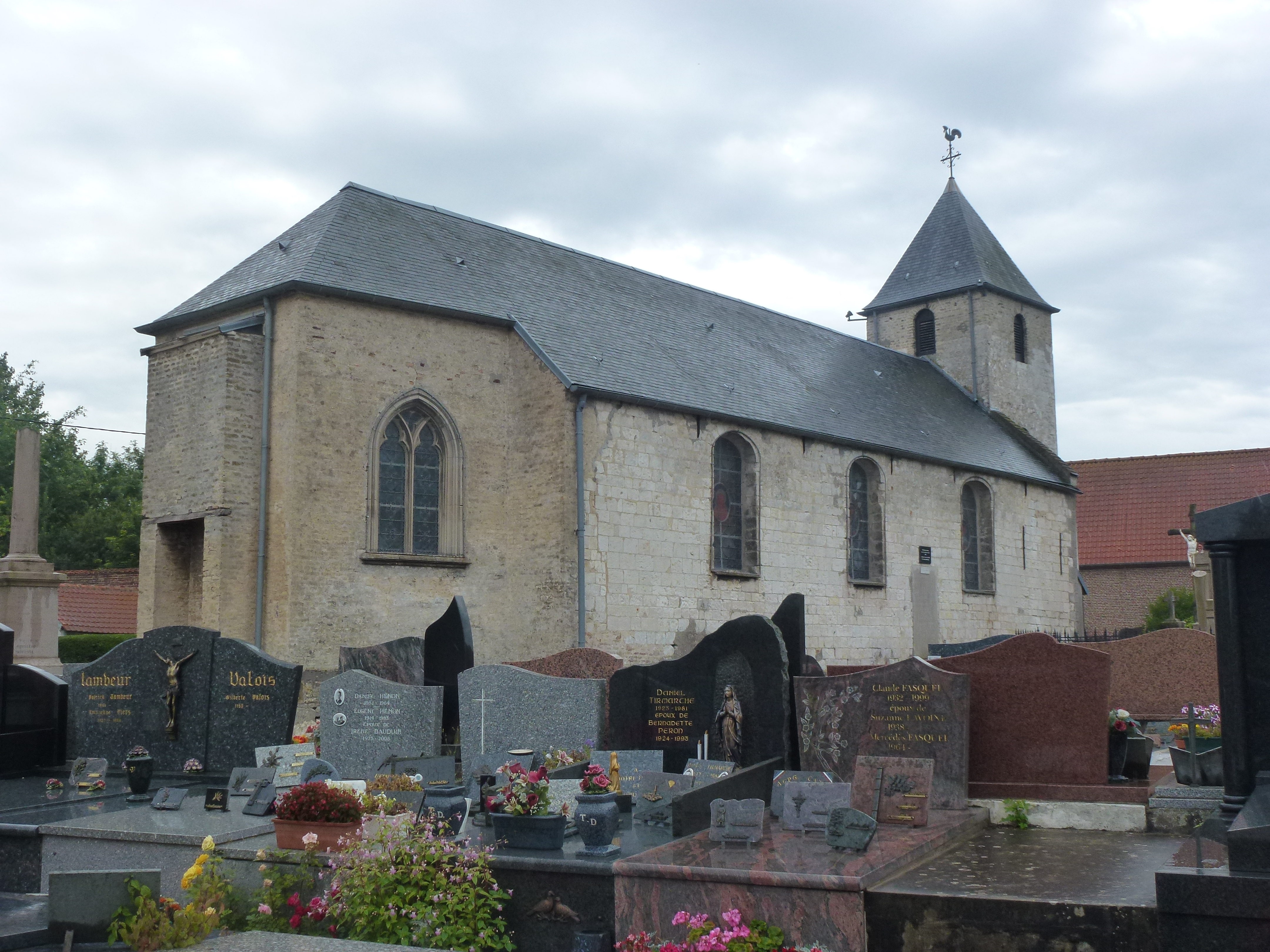 Hames-Boucres (Pas-de-Calais) église